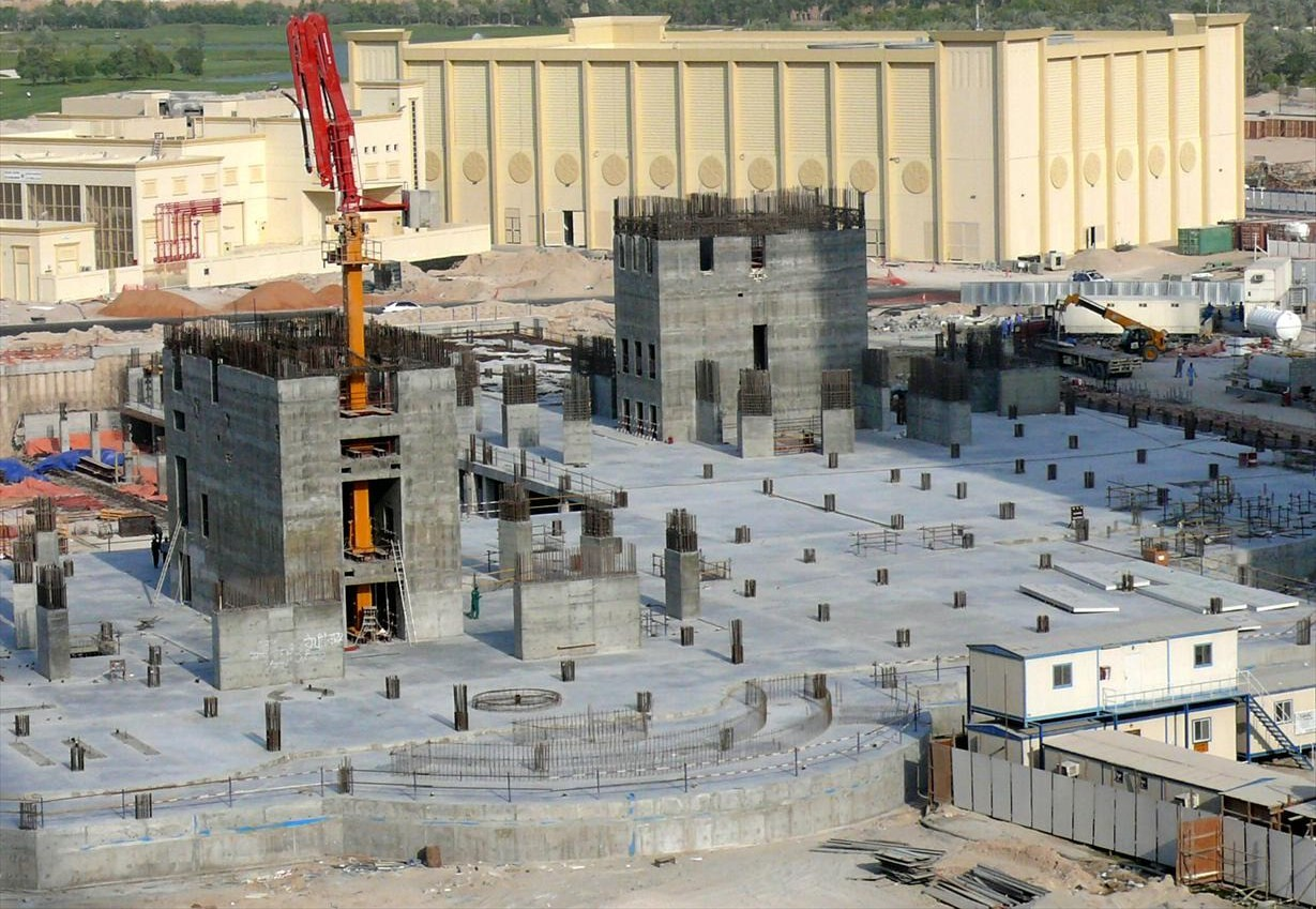 This is a photo showing the construction of the Anantara Towers (which include the Anantara Hotel, the Jumeirah Lake Apartments and the Jumeirah Lake Offices), located in Jumeirah Lake Towers in Dubai, United Arab Emirates, on 10 September 2007.